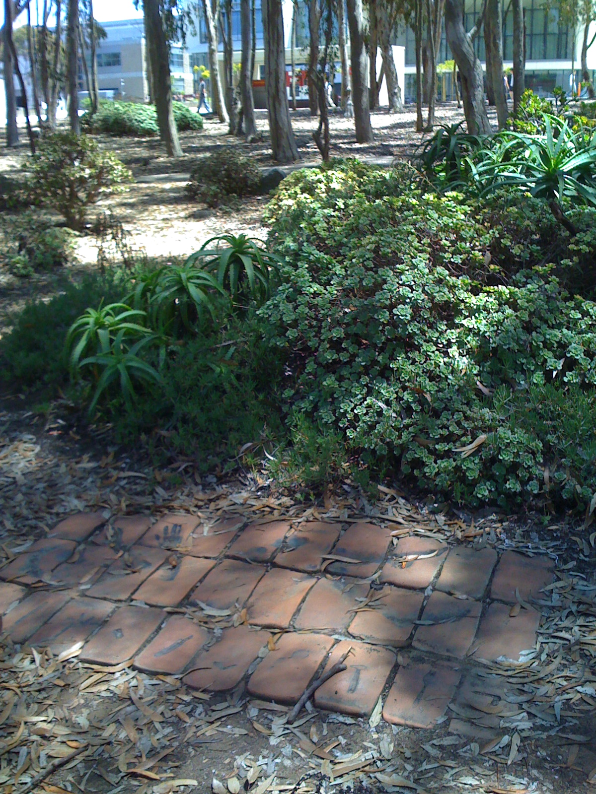 This is a photograph of the George Winne Jr memorial at the University of California, San Diego showing its relation to the ATM kiosk just north of Price Center East, in the grove between the Geisel snakewalk and the shuttle stop. This is a bad photo from my iPhone, I need to bring a real camera.